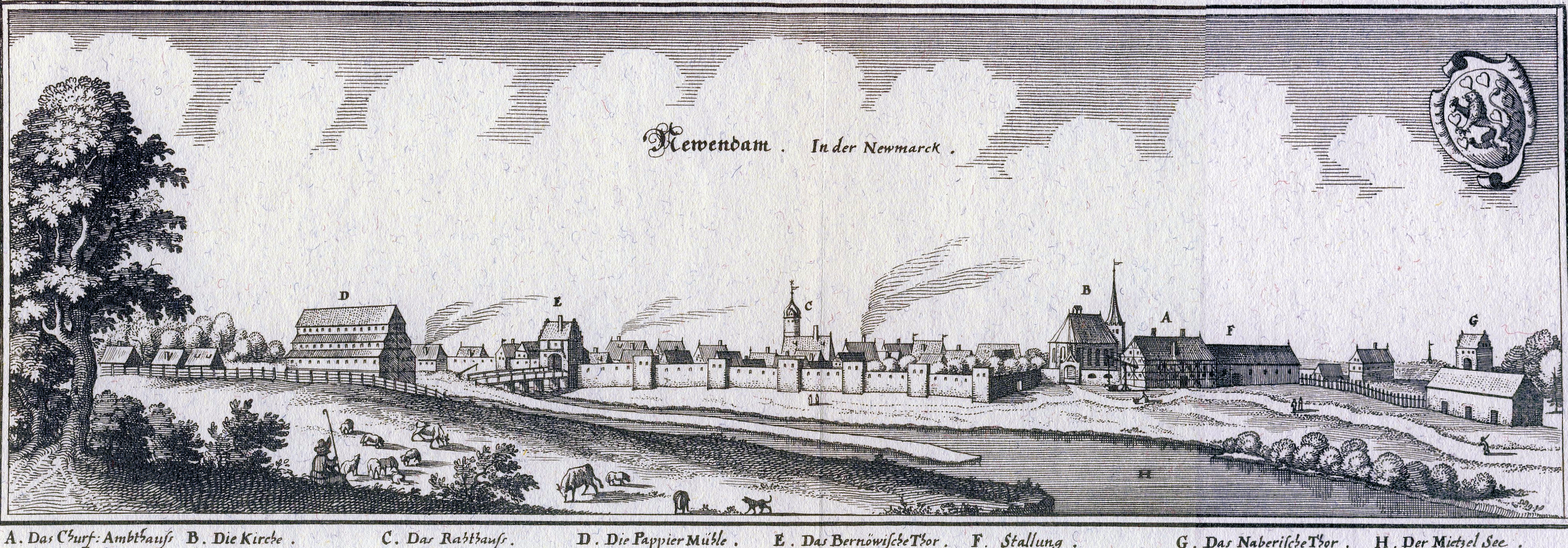 Dębno on Merian's copperplate, year 1652